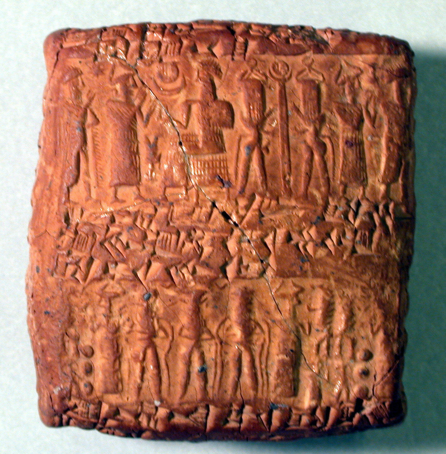 Old Assyrian Trading Colony; Cuneiform tablet case; Clay-Tablets-Inscribed-Seal Impressions